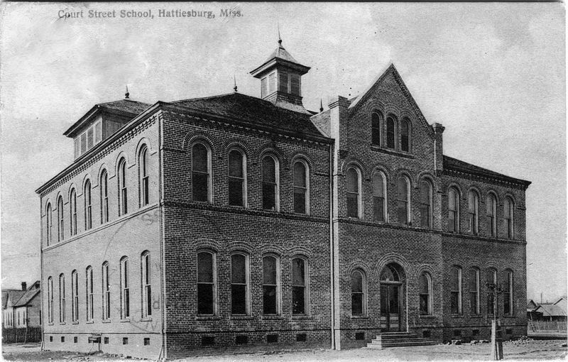 Court Street School located in Hattiesburg, Mississippi